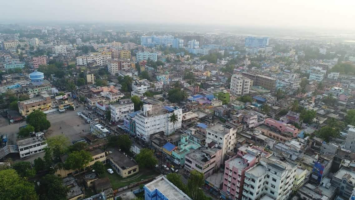 Skyline of malda